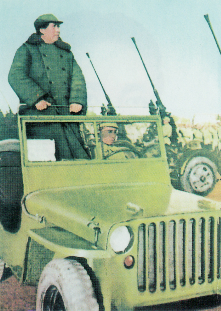 Photo of Mao Zedong standing in a jeep, from Quotations from Chairman Mao Tse-Tung